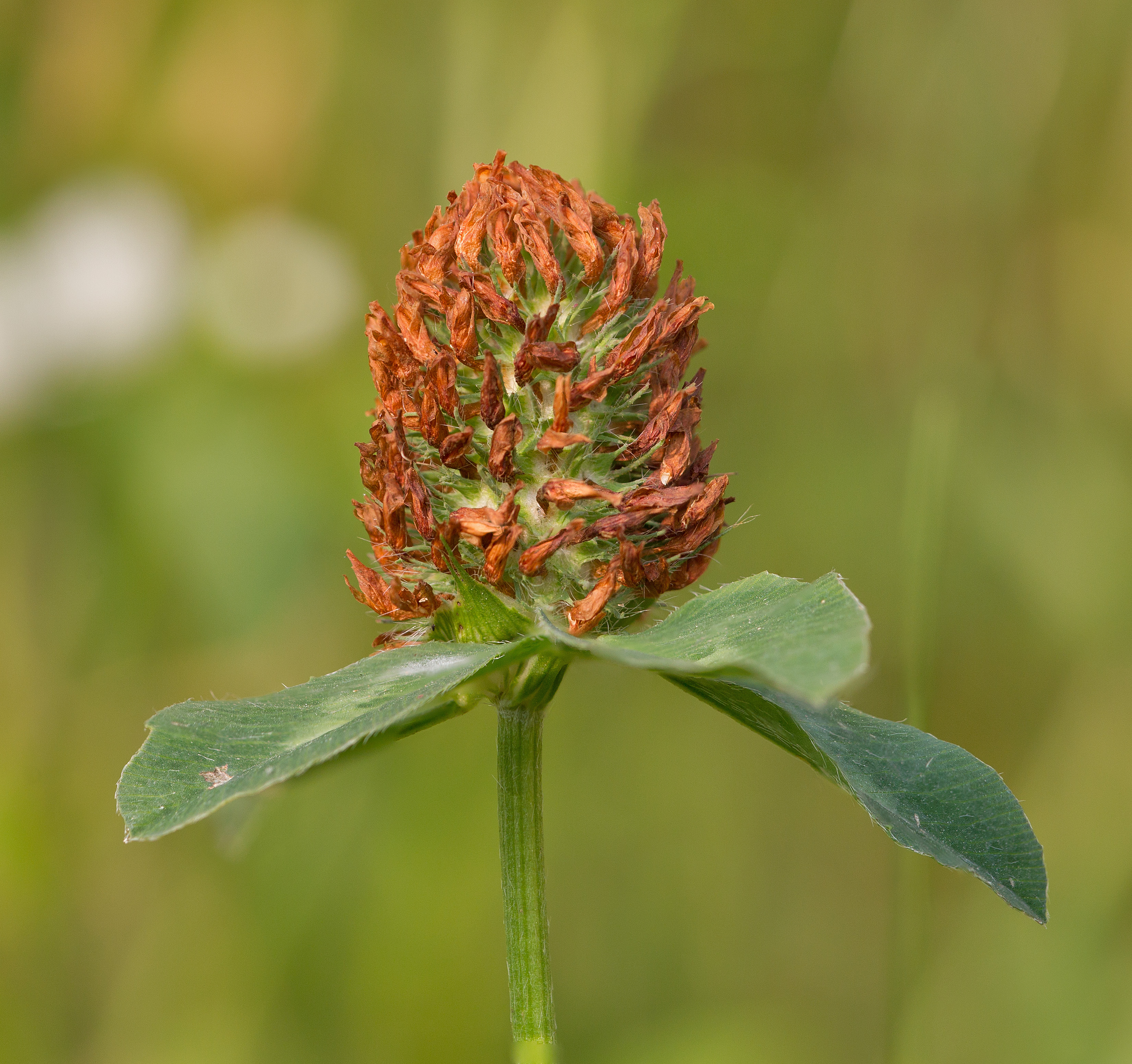 Red clover